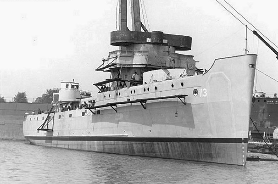 USS Sentinel (AM-113) under construction, date and location unknown.